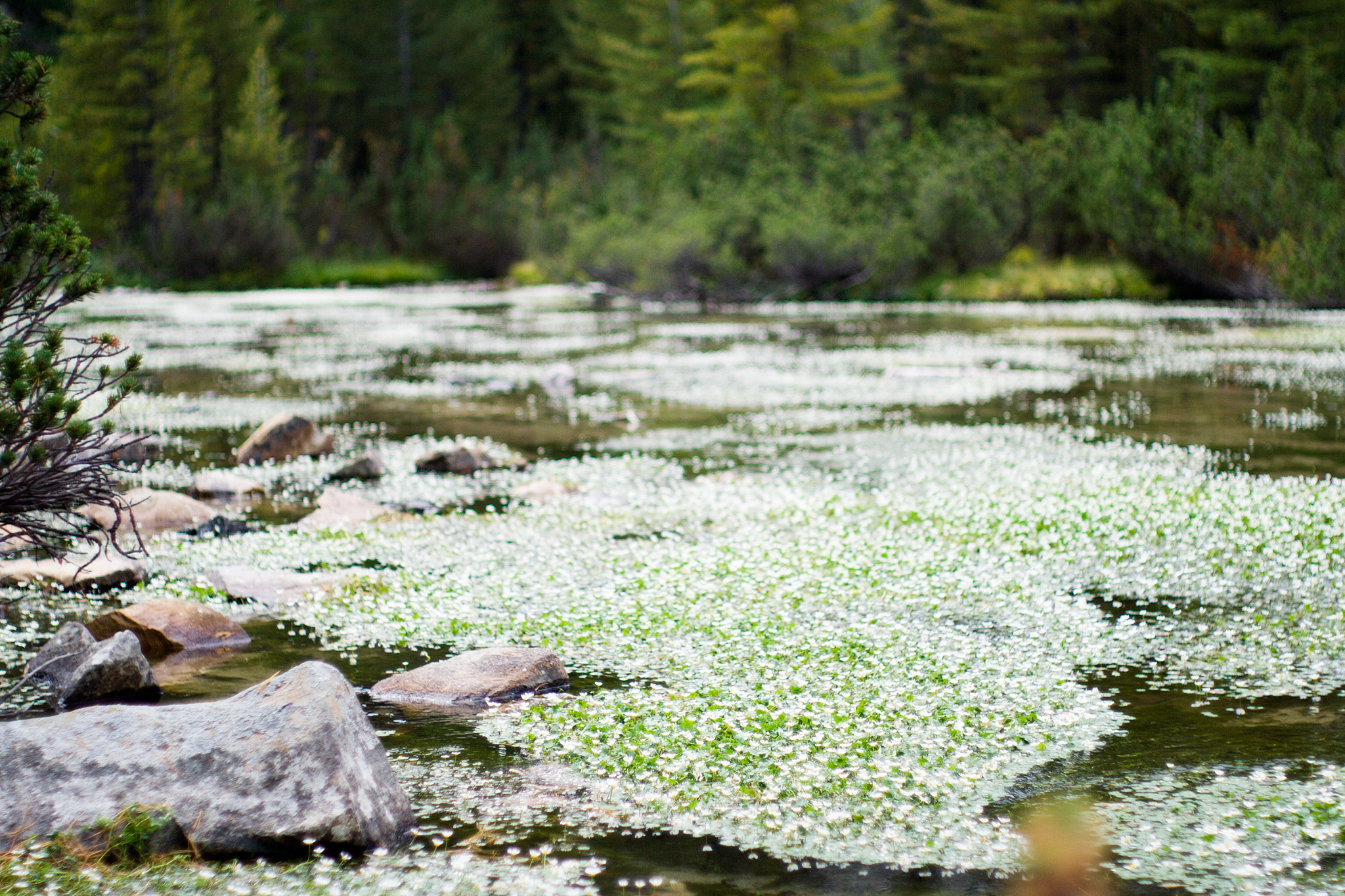 Common water-crowfoot (Ranunculus aquatilis var. riloense). Picture taken at the Retizhe river, Pirin mountains, Bulgaria